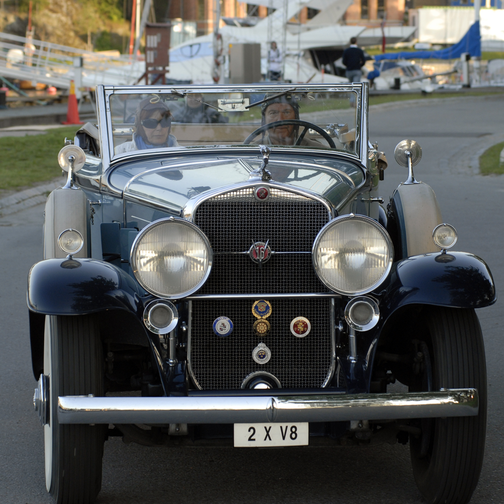 Cadillac V16 vintage car in Stockholm, Sweden